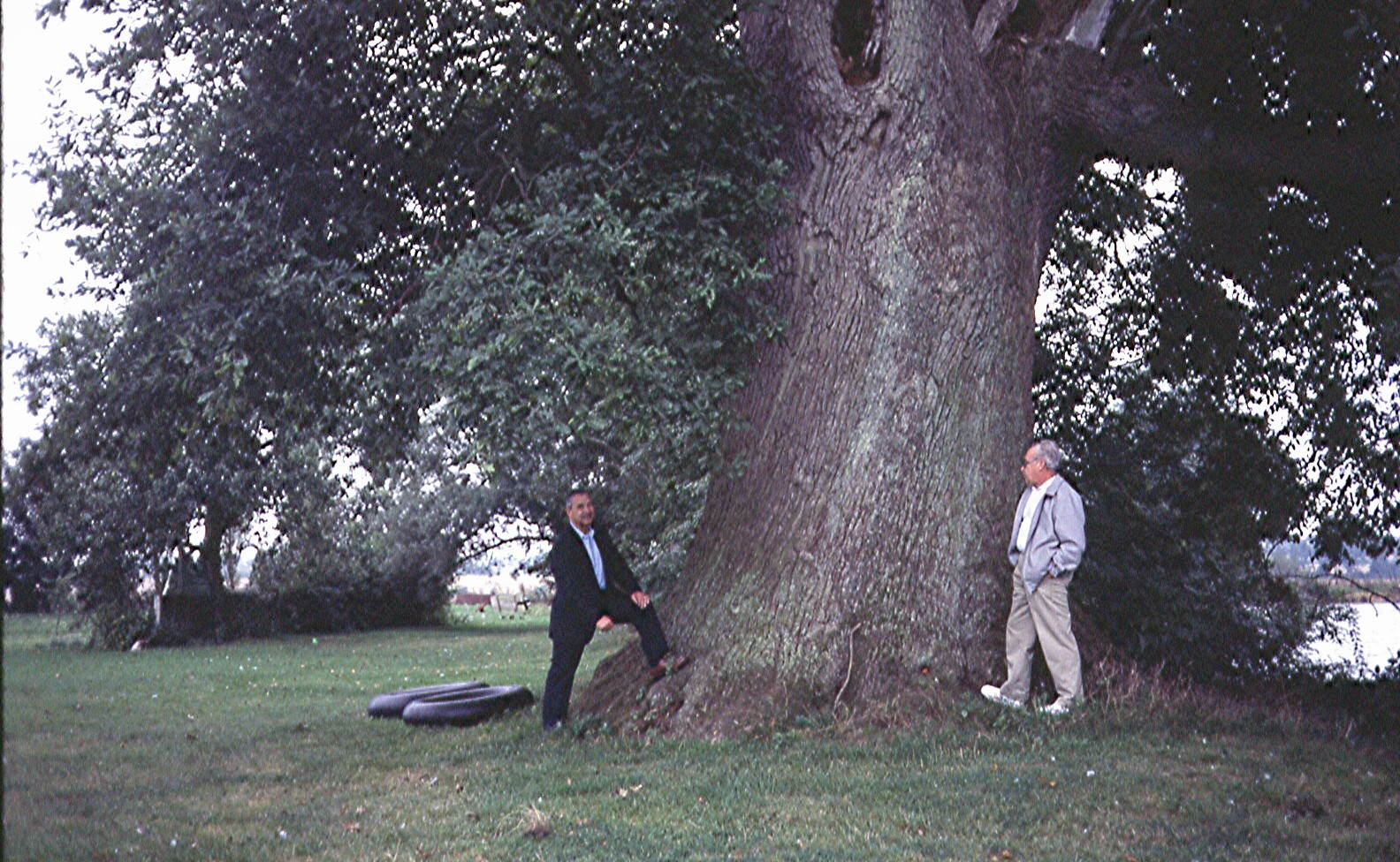 Big oak near Beuvardes.